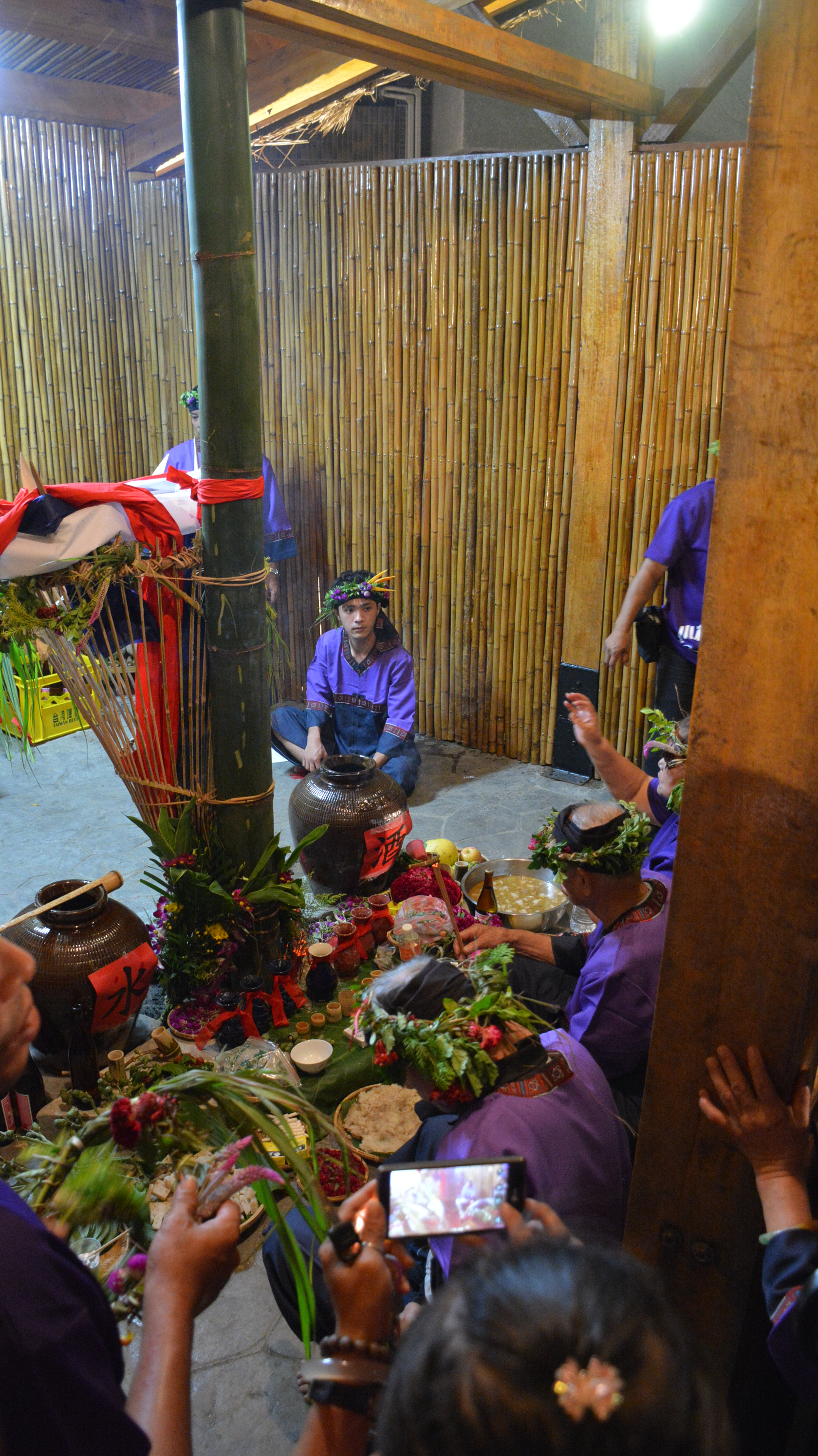 Taivoan men are worshiping to the Highest Ancestral Spirits around the central axial column of the Shrine on the Night Ceremony.